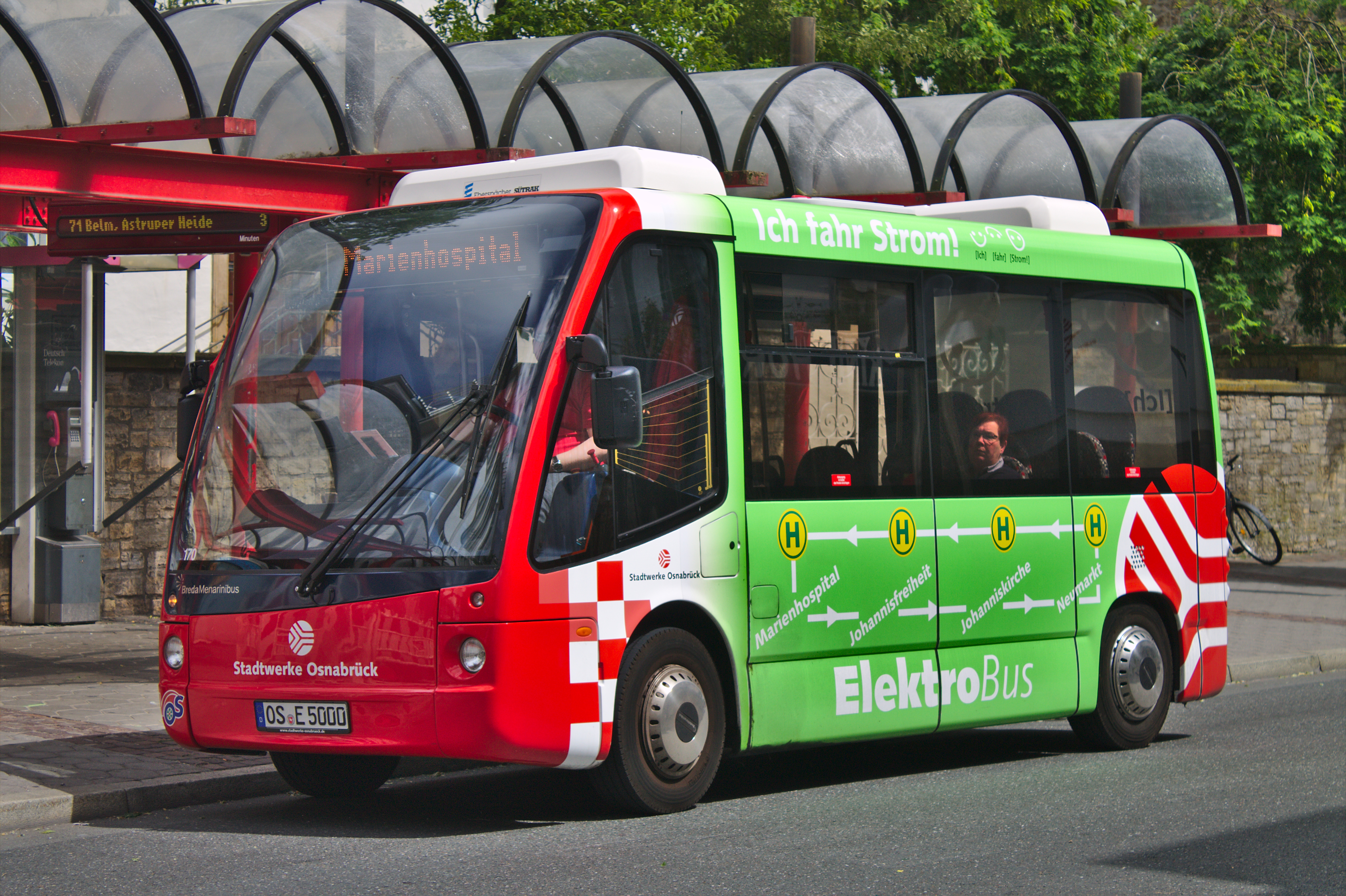 A battery-powered bus by BredaMenarinibus (type Zeus M) operated by the Osnabrück city works (Stadtwerke Osnabrück) is waiting for passengers on Johanniskirche (St John's church) bus stop on its "StadtteilBus" (neighborhood bus service) round trip (Neumarkt ↔ Marienhospital).